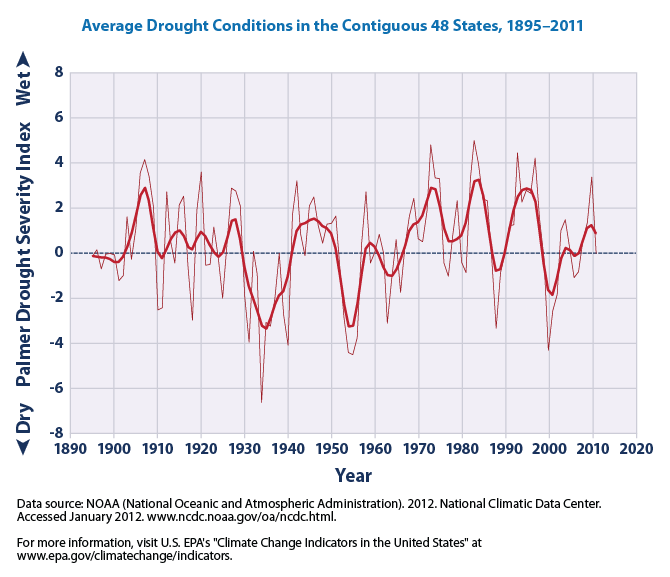 This graph shows average drought conditions in the contiguous 48 states, according to the EPA, with yearly data going from 1895 to 2011. As stated by the agency, a value between -2 and -3 indicates moderate drought, -3 to -4 is severe drought, and -4 or below indicates extreme drought. The curve is a nine-year weighted average.